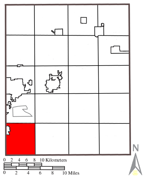 Map of Portage County, Ohio with Suffield Township highlighted.